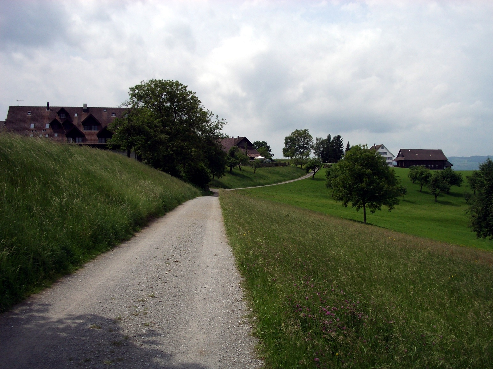 Hinteruttenberg ZH, Switzerland